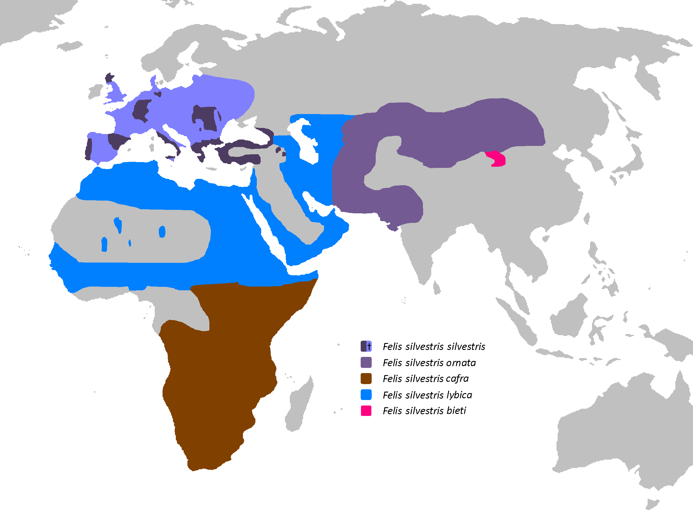 Wildcat (Felis silvestris) range map.